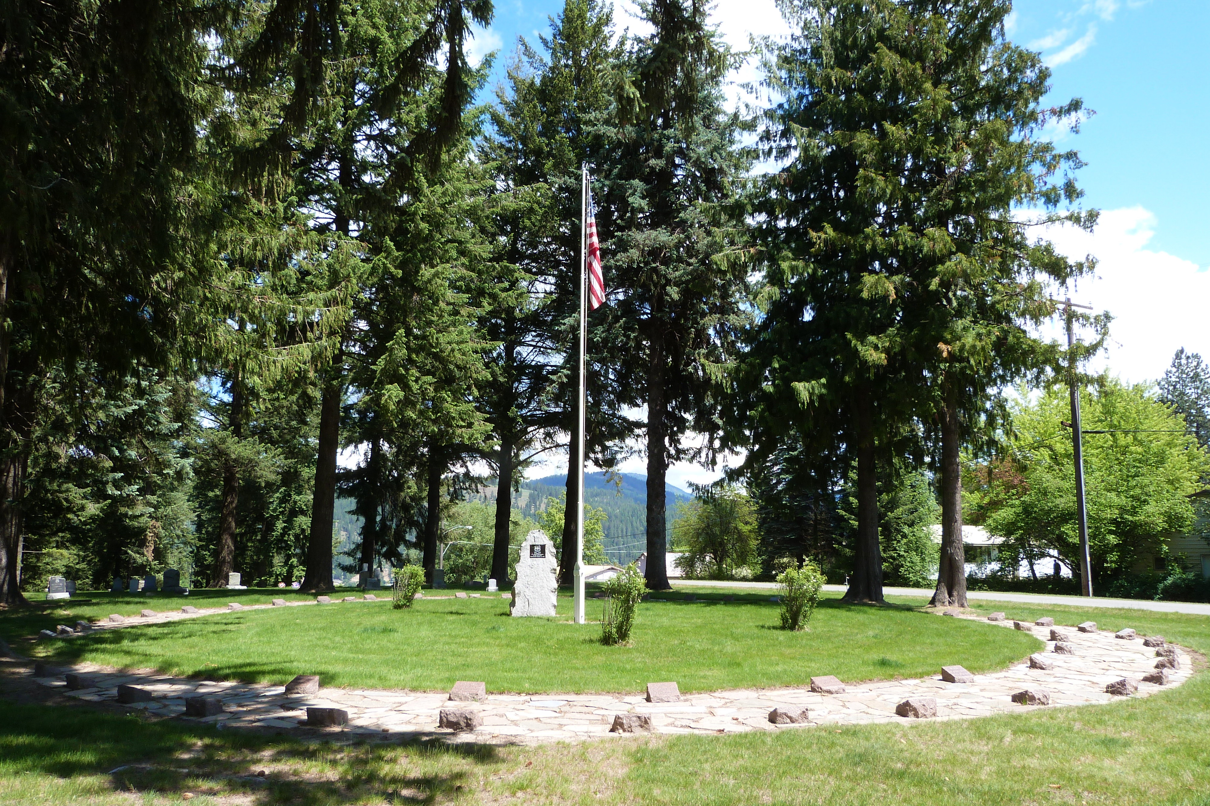 The grave and memorial to firefighters who died in the Great Fire of 1910 on August 20, 1910, located in Woodlawn Cemetery, St. Maries, Idaho, United States, is listed on the US National Register of Historic Places.